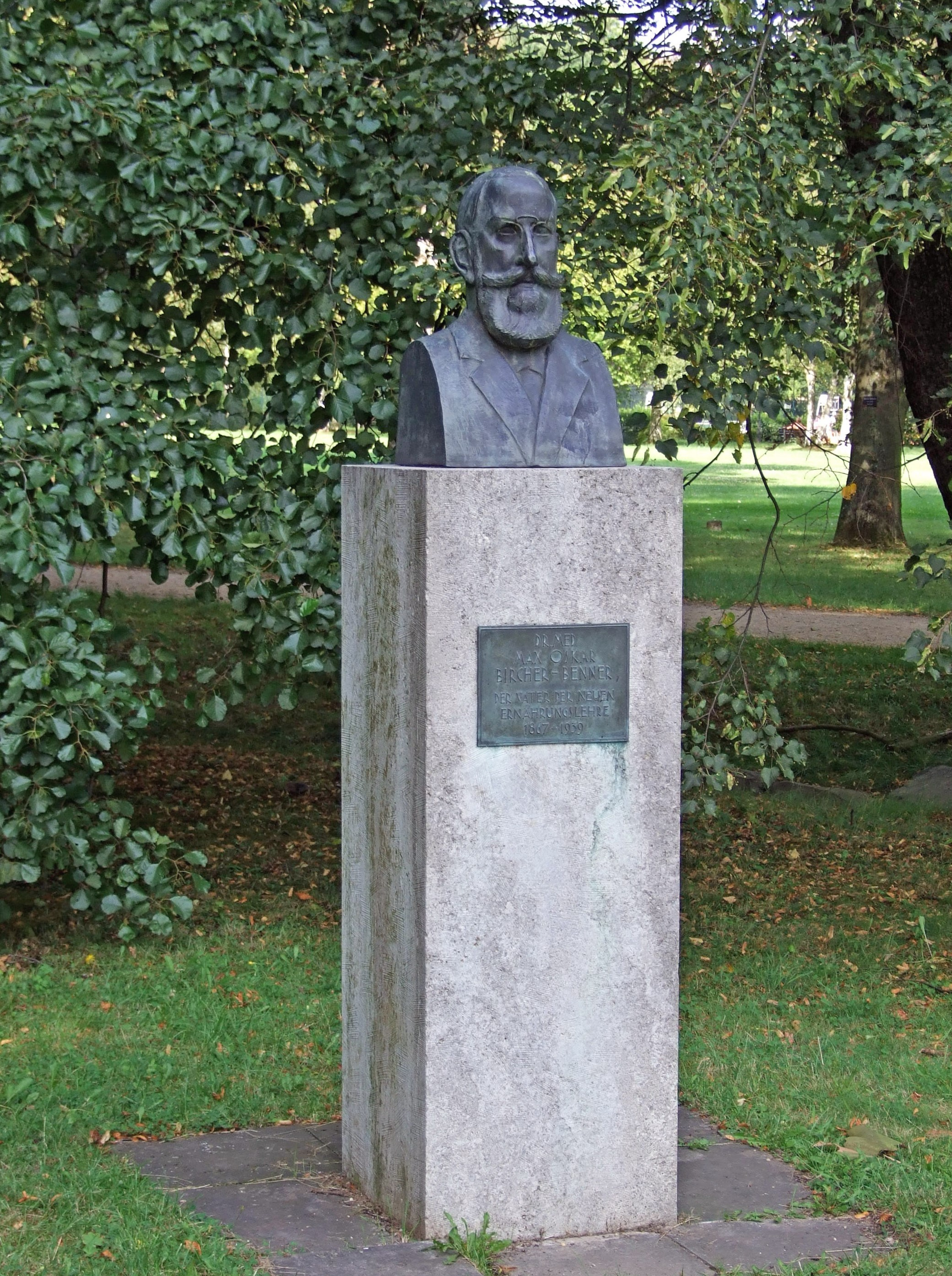 Maximilian Oskar Bircher-Benner memorial at "Kurpark" in Bad Homburg, Hesse, Germany